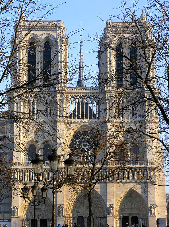 Author: -- Eric Pouhier 20:54, 6 December 2005 (UTC) Date: November 2005